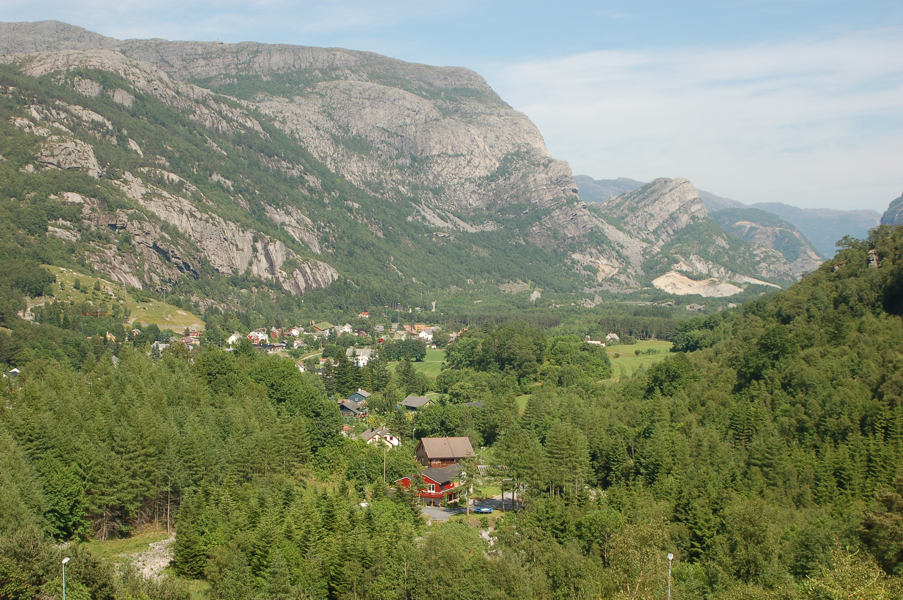 Oltedal, Rogaland, Norway. Looking east.